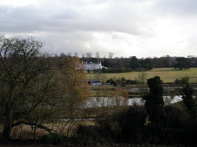 Alre Valley. Looking south across the Alre Valley from Drove Lane. The large house is Arlebury Park. The River Alre is dammed to make fish ponds.